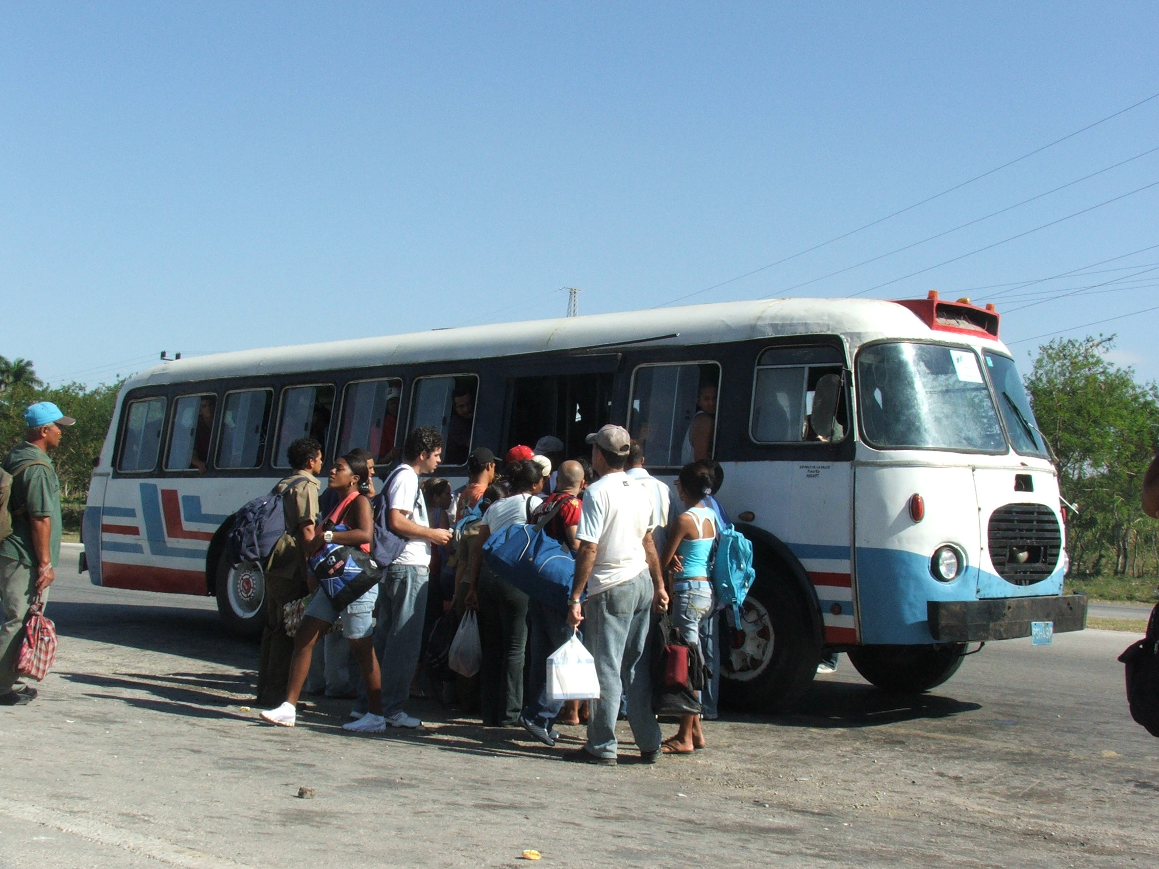 Bus in Cuba in 2009.